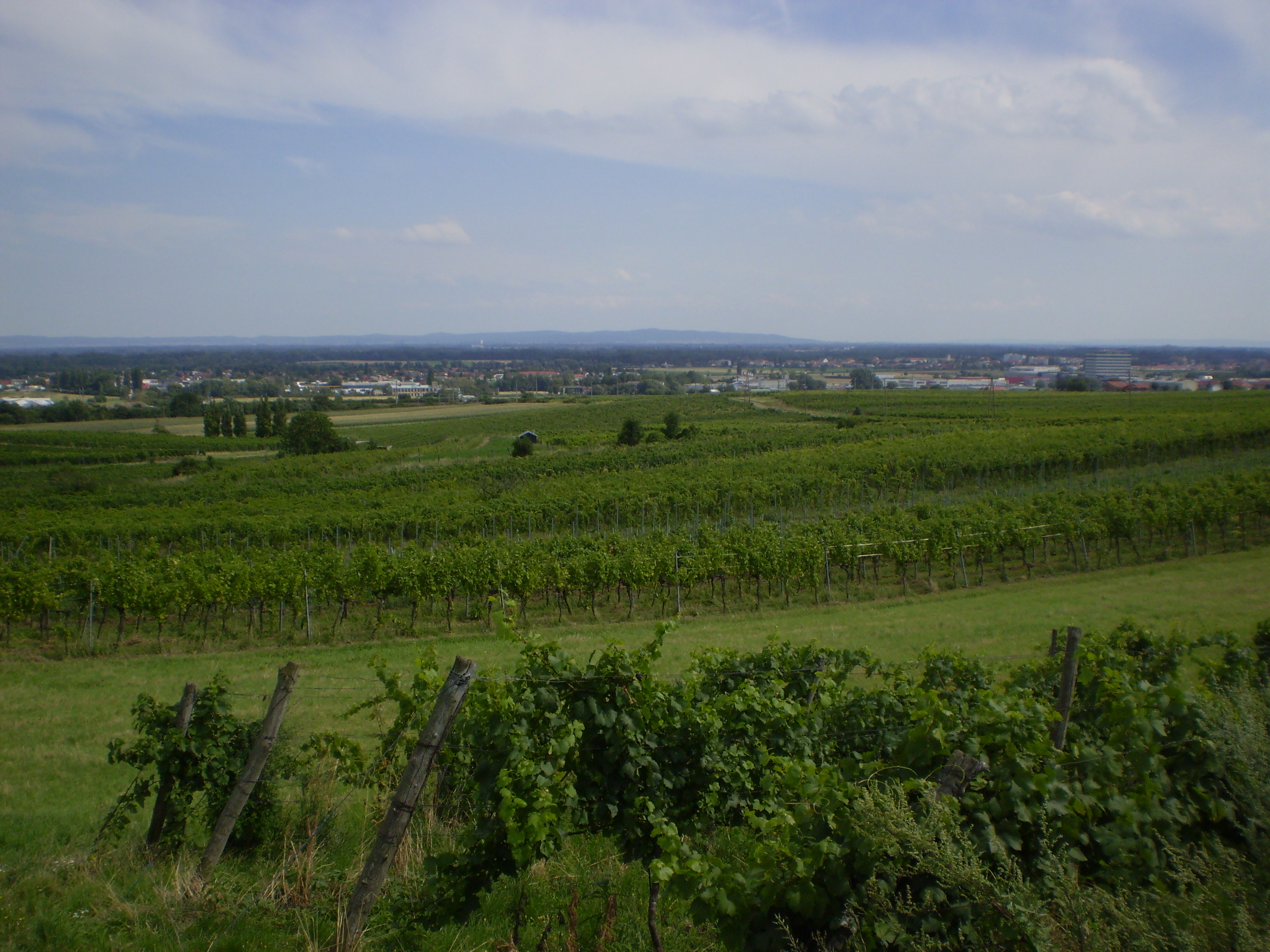 Vineyards in Gumpoldskirchen, Lower Austria. View over the Vienna Basin, Leitha Mountains in the back.